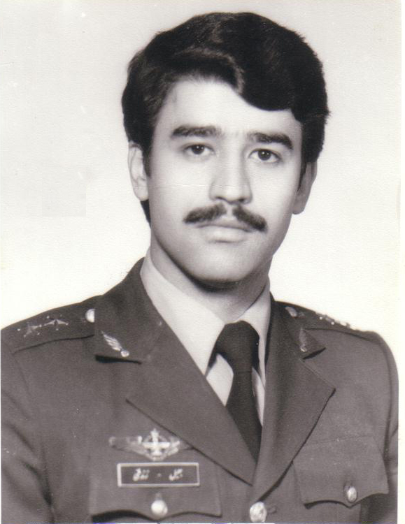 Jalil Zandi, Ace Fighter Pilot during Iran-Iraq war